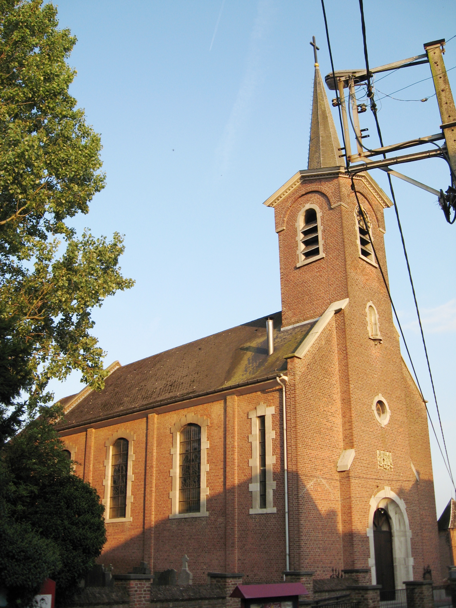 Church of Saint Martin in Kerkom-bij-Sint-Truiden, Sint-Truiden, Limburg, Belgium